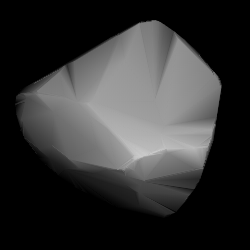 3D convex shape model of 1824 Haworth, computed using light curve inversion techniques. J. Hanuš, J. Ďurech, M. Brož, B. D. Warner (June 2011). "A study of asteroid pole-latitude distribution based on an extended set of shape models derived by the lightcurve inversion method". Astronomy and Astrophysics 530: A134. ISSN 0004-6361. arXiv